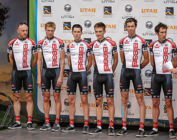 Bissell Pro Cycling Team, at the presentation of the Tour of Utah 2013